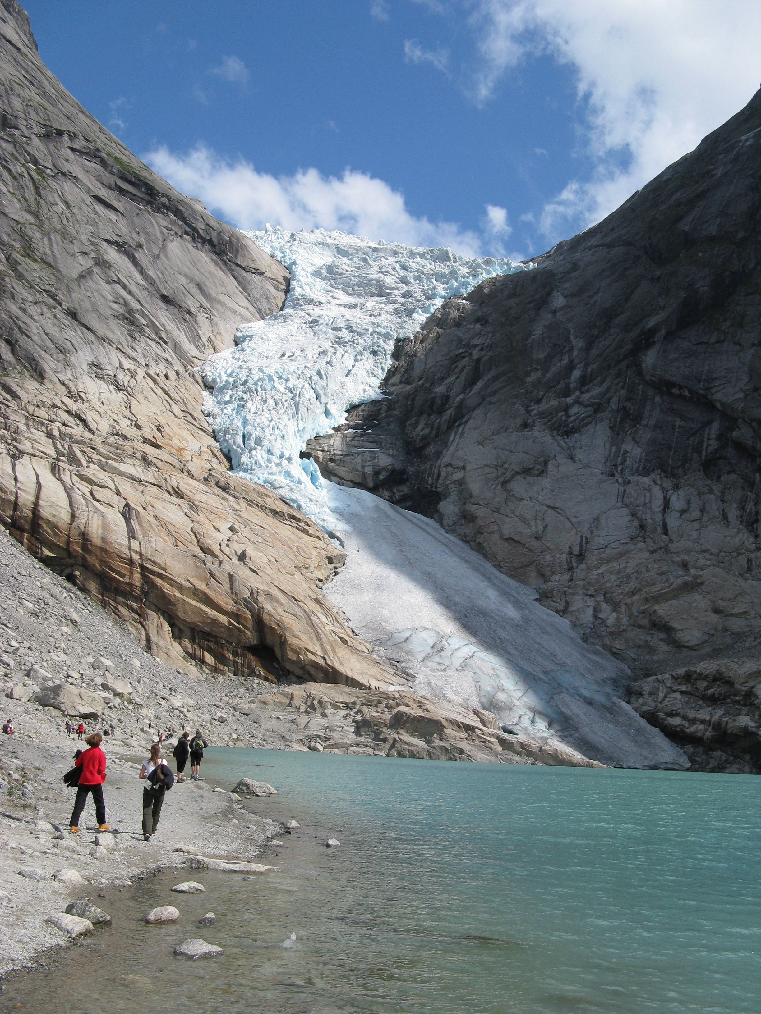 Briksdalsbreen Glacier.